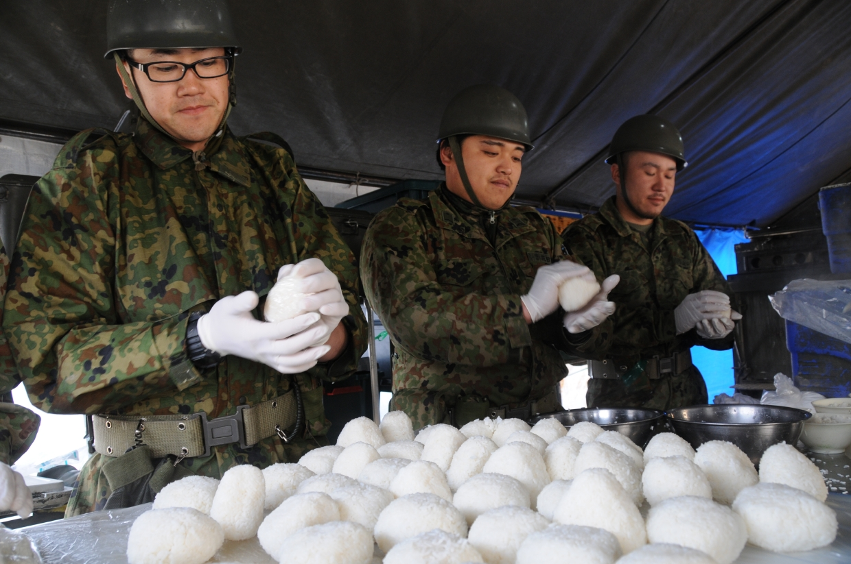 Title 23.3.22 ２Ｌｏｇ・２Ｃｍｌ・１１Ｂ：給食支援（山田地区）③.jpg Album 東日本大震災における災害派遣活動 給食支援活動